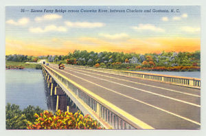 Sloans Ferry Bridge across Catawba River, between Charlotte and Gastonia, N.C. (Postcard) Written on the back: Sloans Ferry Bridge. This super-highway bridge, on U.S. 29 and 74, across Catawba River, was erected as a memorial to the men of the counties of Mecklenburg and Gaston, who served in the World War.